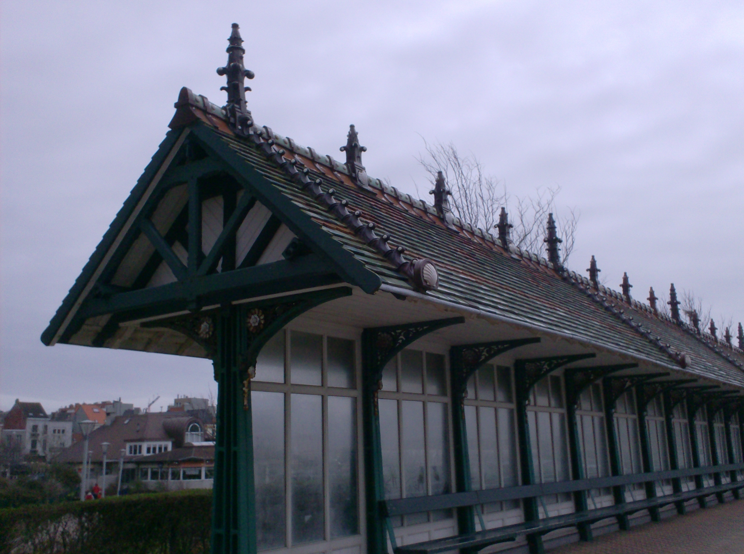 Windscreen with benches in Blankenberge, built in 1908, known as the Paravang (from French paravent, windscreen), located alongside the Leopold park. The roof is in neo-gothic style with glazed tiles and decoration in the form of shells.